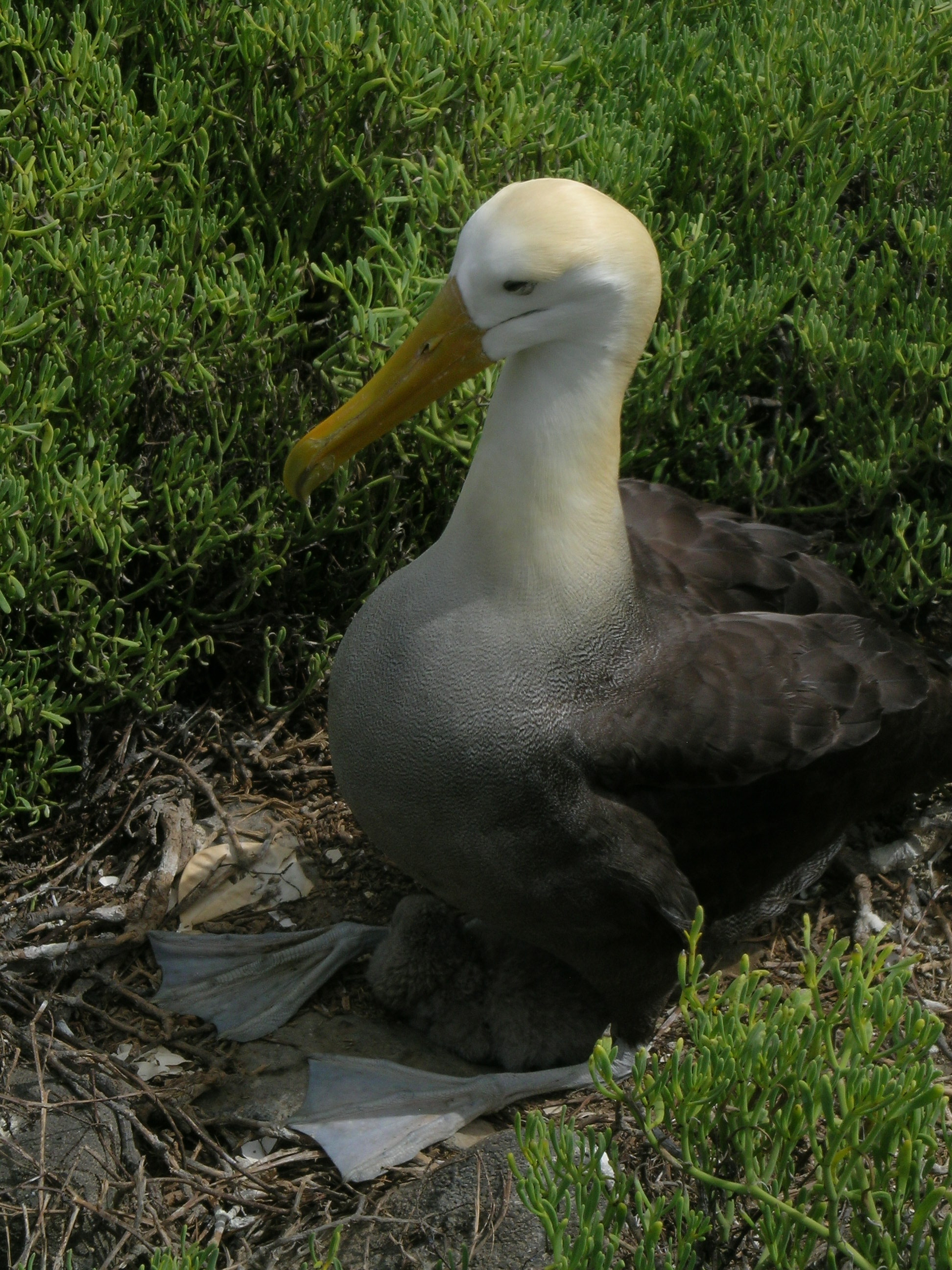 Waved Albatross (Phoebastria irrorata) with chicks on Española Island, Galapagos